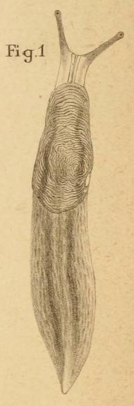 The slug Agriolimax valentianus (also known as Lehmannia valentiana). From Biodiversity-Heritage-Library scan of Plate 1 of Pollonera, C. (1887). "Intorno ad alcuni Limacidi europei poco noti". Bollettino dei Musei di Zoologia ed Anatomia Comparata della Reale Università di Torino 2 (21): 1–4 + pl. 1. The figure caption appears on page 4 ( The plate was drawn by the author Carlo Pollonera, a renowned Italian artist as well as a malacologist.